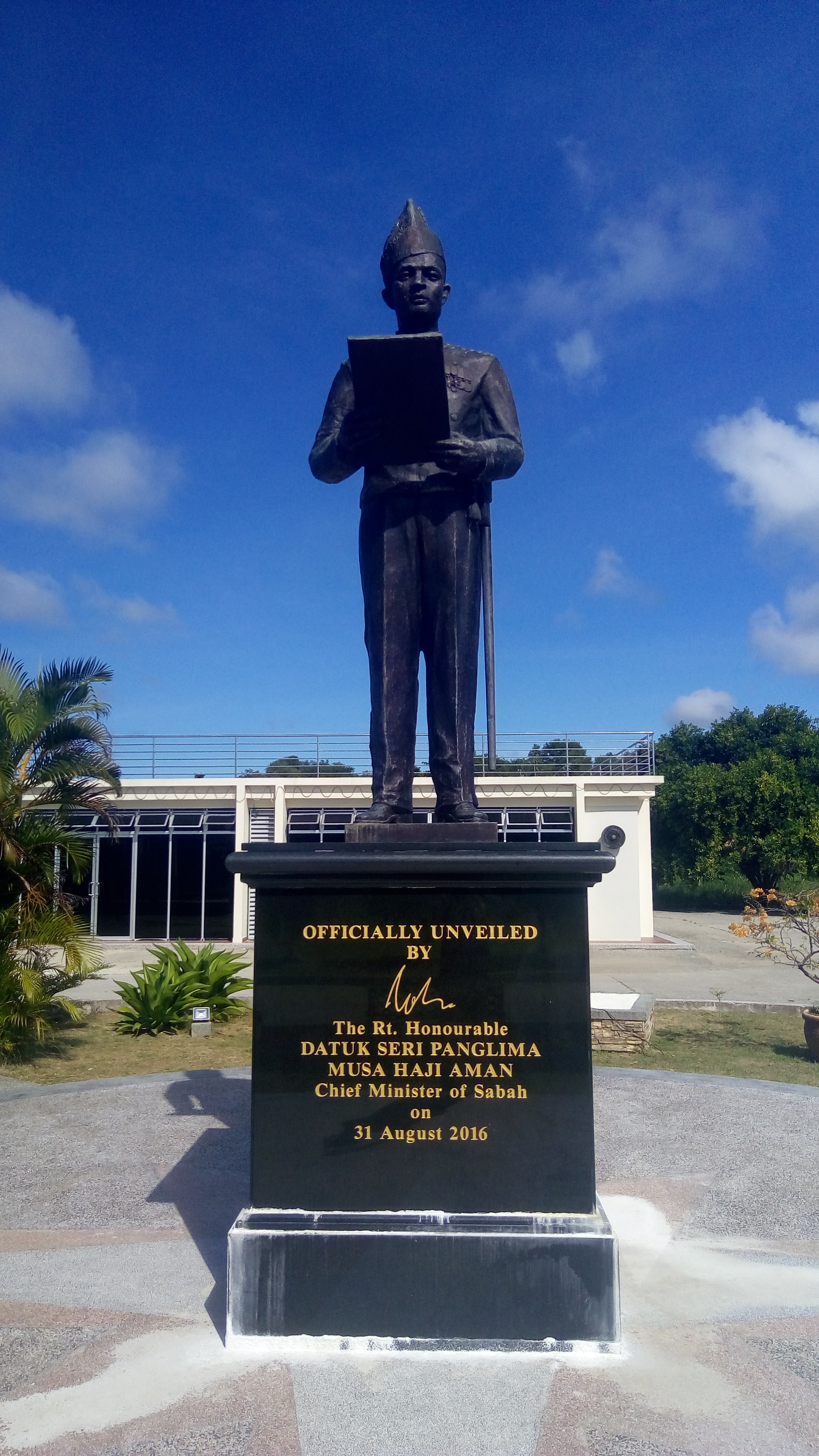 Statue of Tun Mustapha at Istana Tun Mustapha, Kudat. 2018